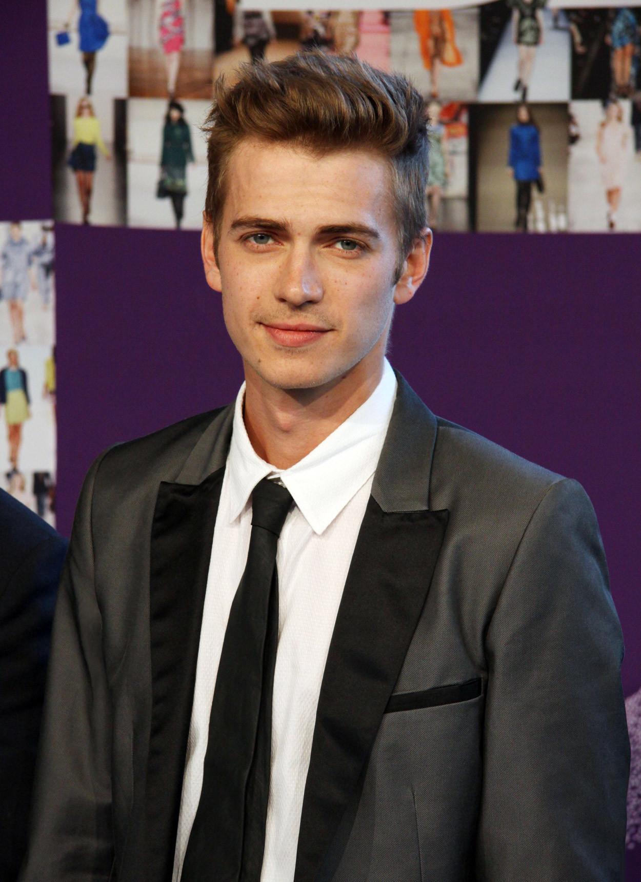 hayden christensen